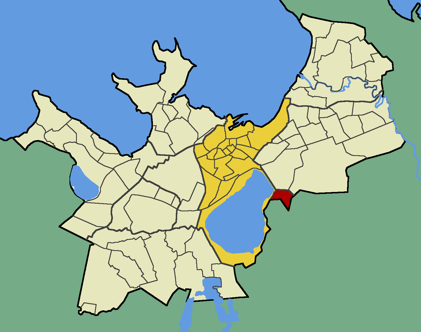 Map of Tallinn (Estonia) with borders of the quarters, Kesklinn district and Mõigu quarter emphasised